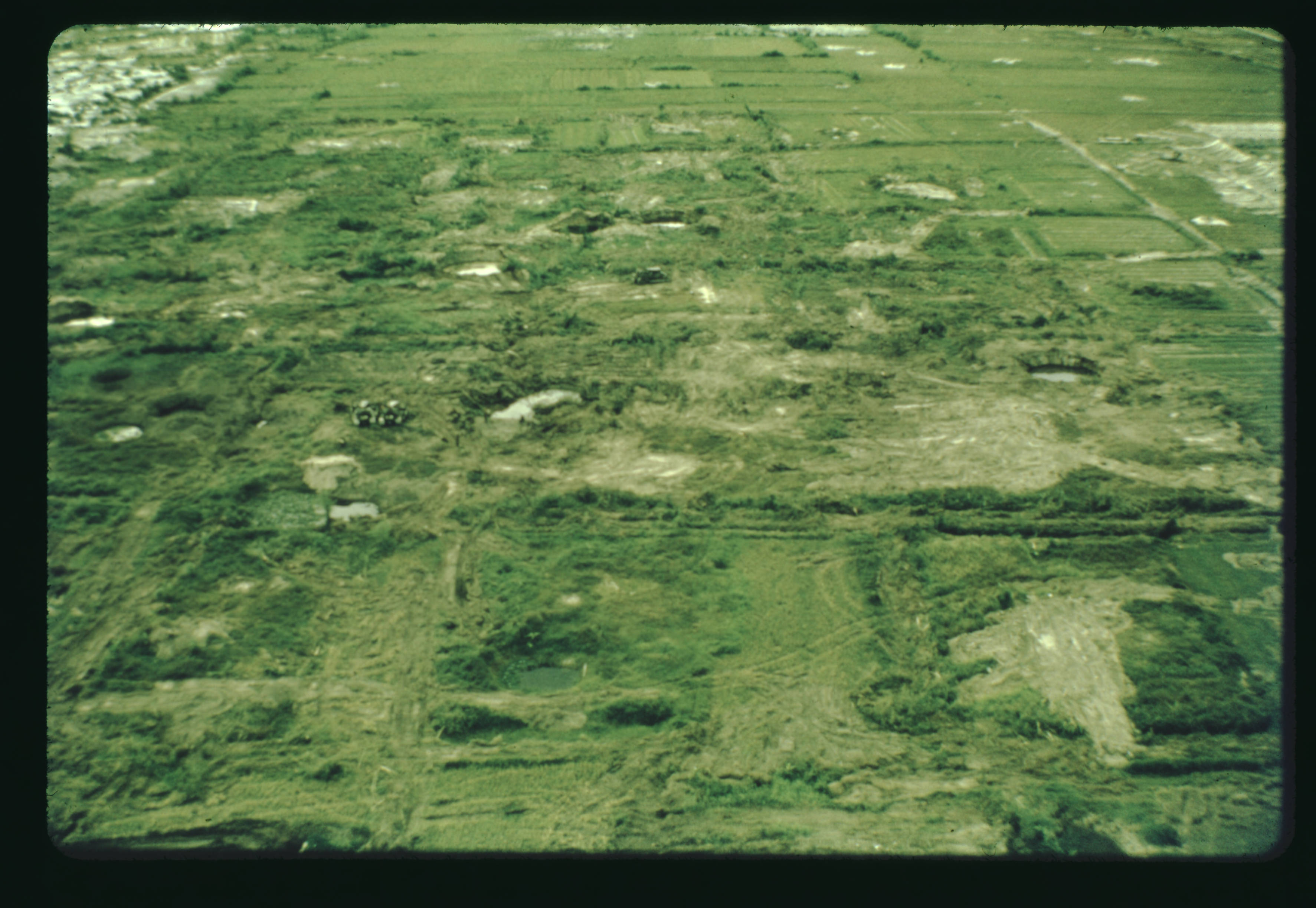 Within the "Street Without Joy" the 1st Air Cavalry Div supported by the 14th Engineer Battalion is conducting Operation Open Housing. In this operation villages and hedge rows in the area are being leveled and tunnels are being destroyed thereby eliminating Viet Cong sanctuaries.